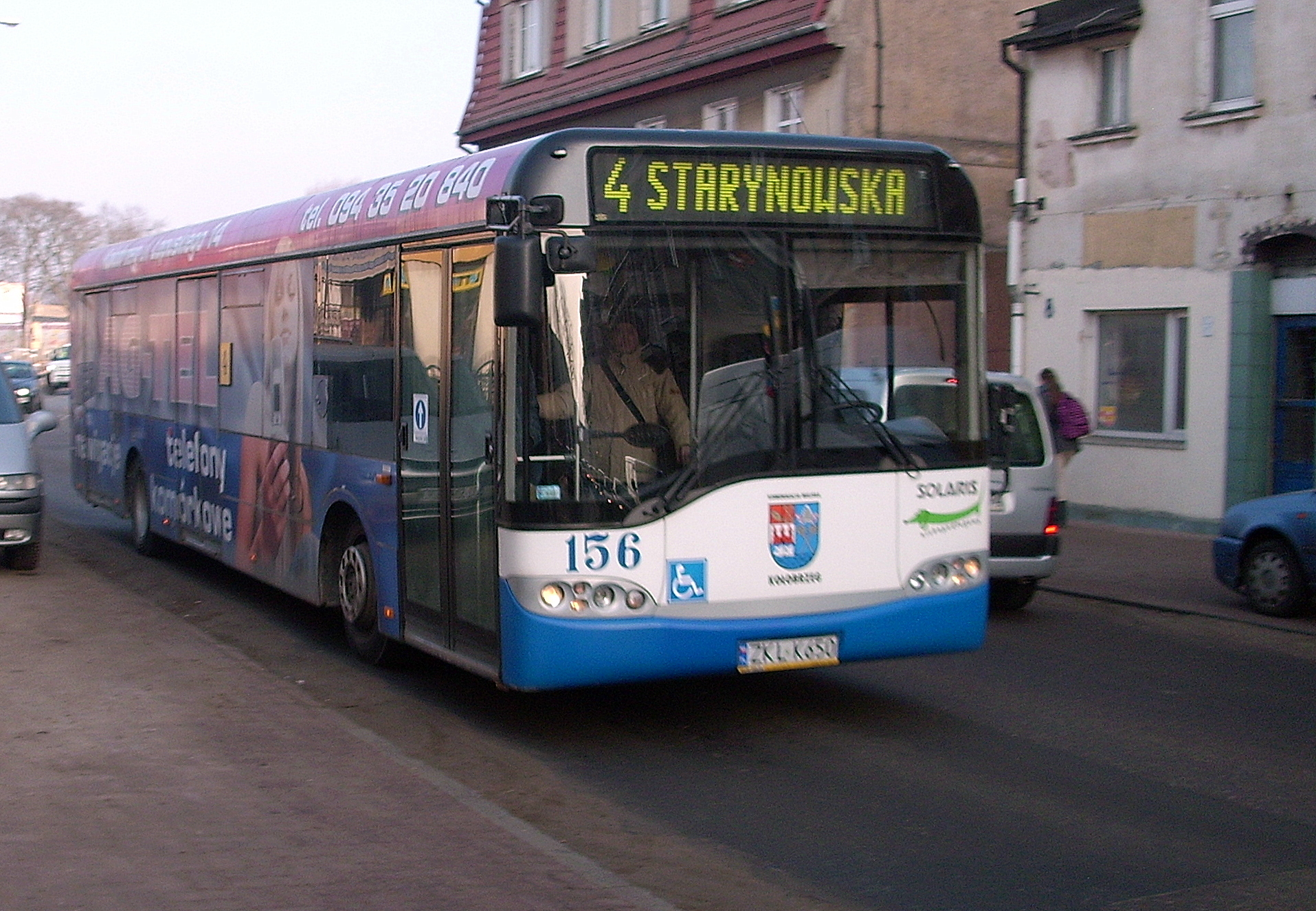 Solaris Urbino 12 bus (#156) in Kołobrzeg, Poland. Built 2002, KM Kołobrzeg operator.